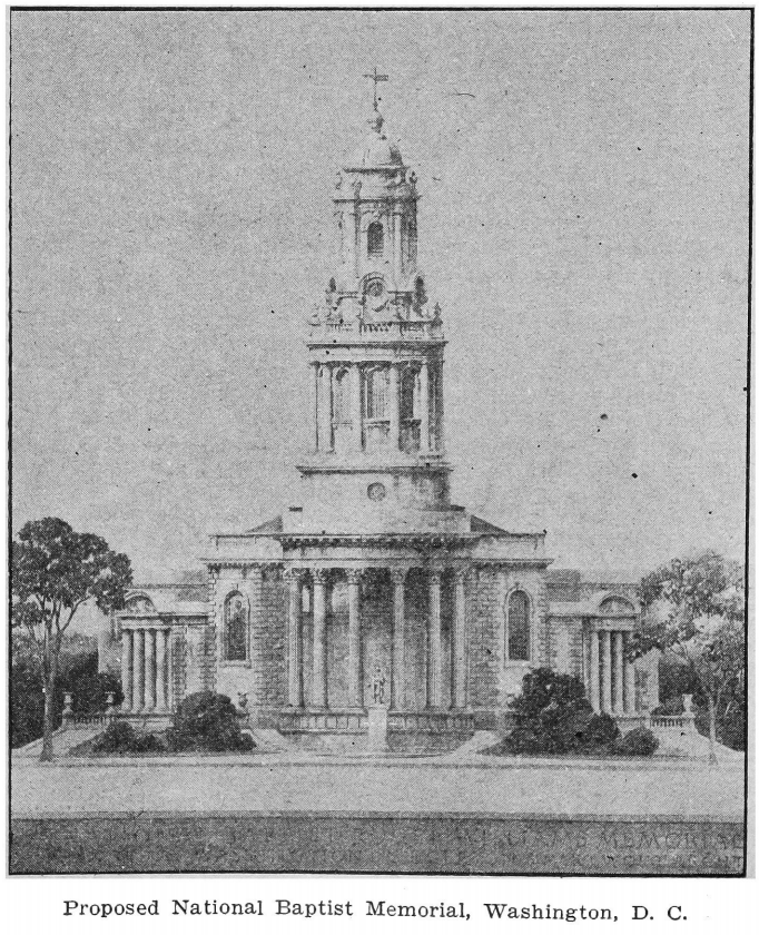 An illustration of the proposed National Baptist Memorial, Washington D.C., what would eventually become the National Baptist Memorial Church, from the Annual of the Southern Baptist Convention, 1920.